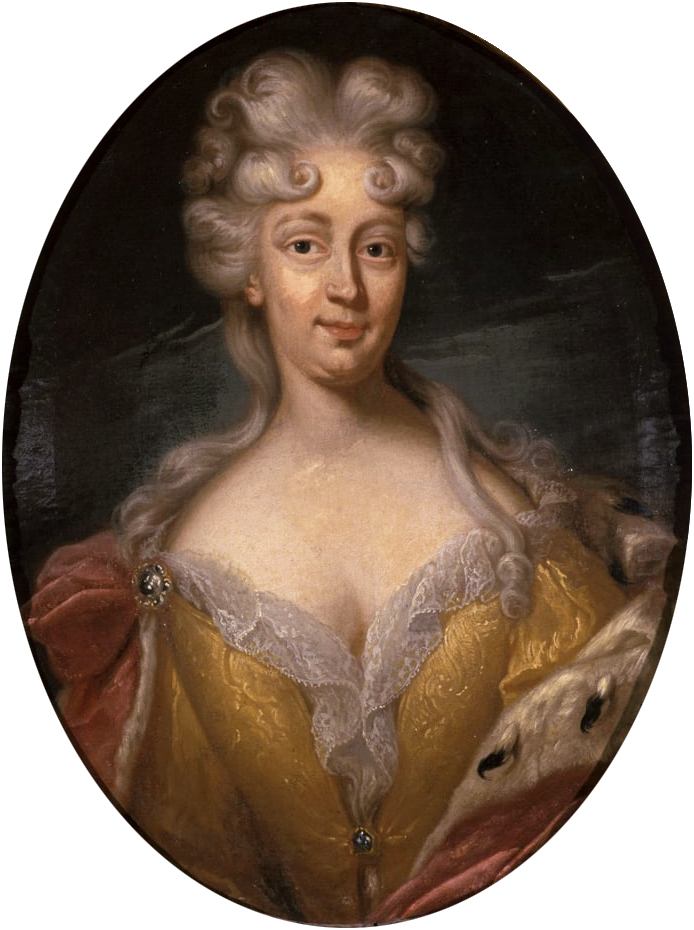 Portrait of Fredericka Elisabeth of Saxe-Eisenach (1669-1730), Duchess of Saxe-Weissenfels